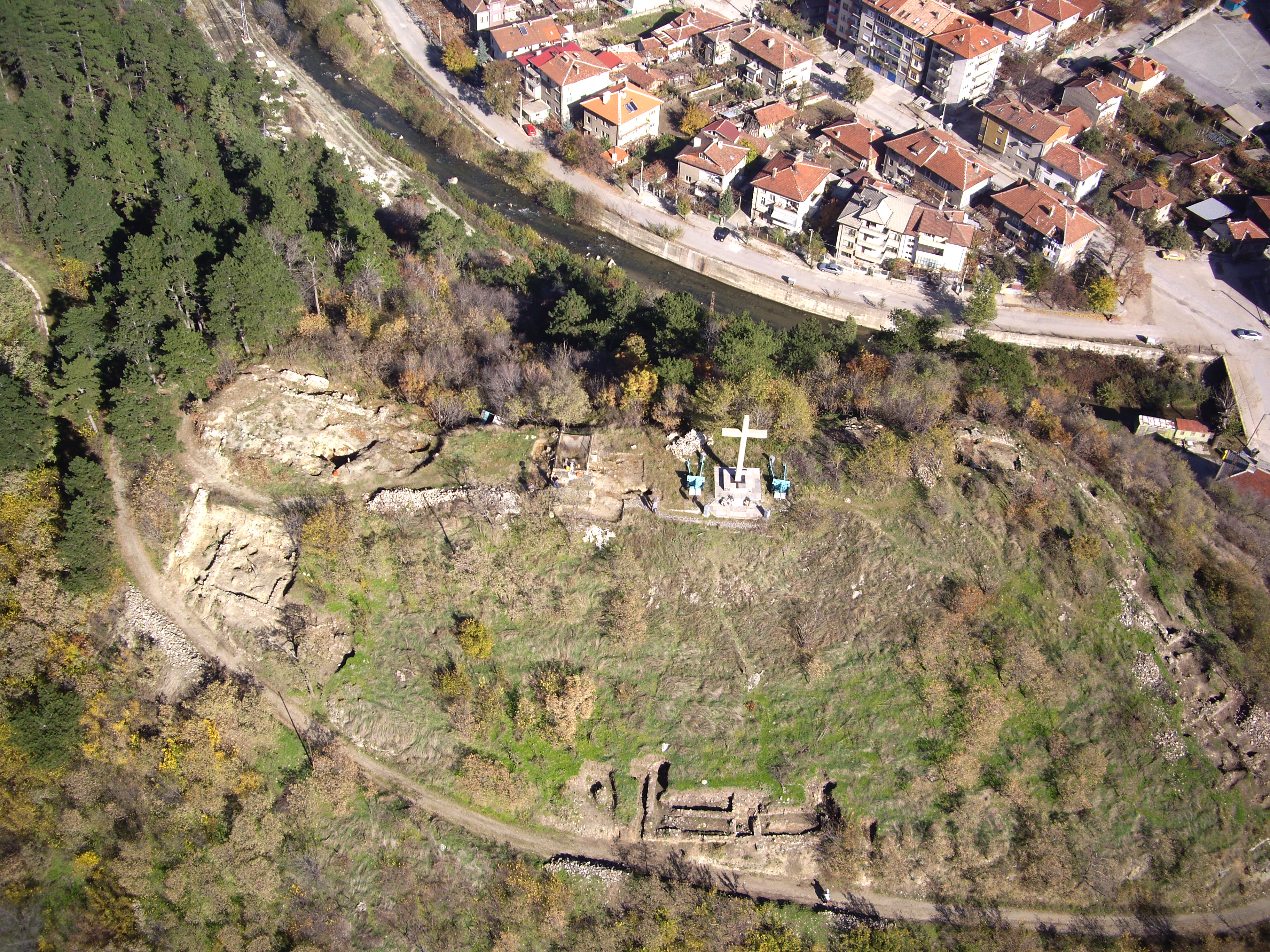 This photo is provided by the Historical Museum in Dupnitsa and is included in the album "Dupnitsa through the centuries" („Дупница през вековете“). Dupnitsa Municipality, Historical Museum - Dupnitsa. ISBN 978-954-8187-89-3.